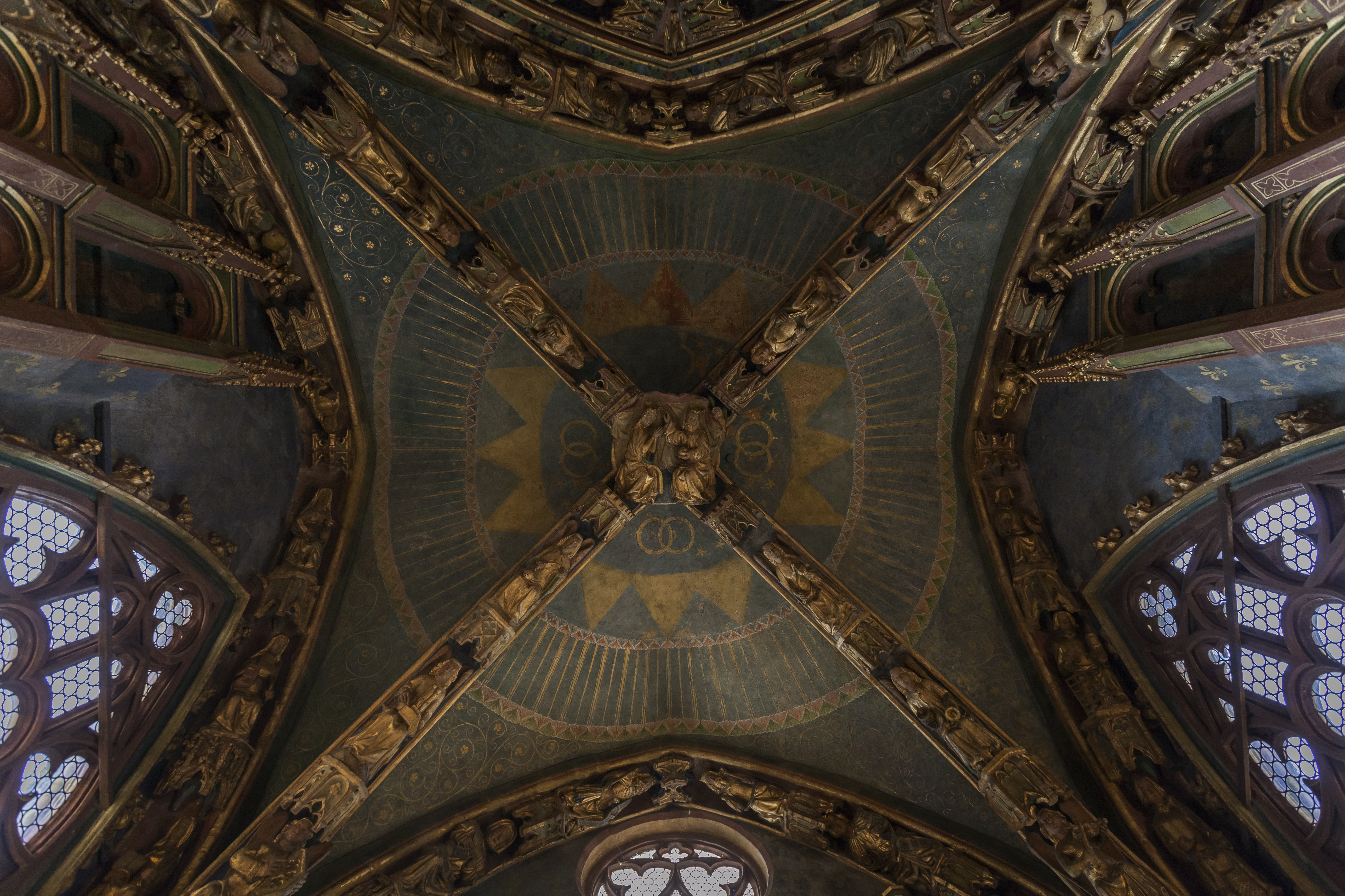 Church or Our Lady, Nuremberg, Germany